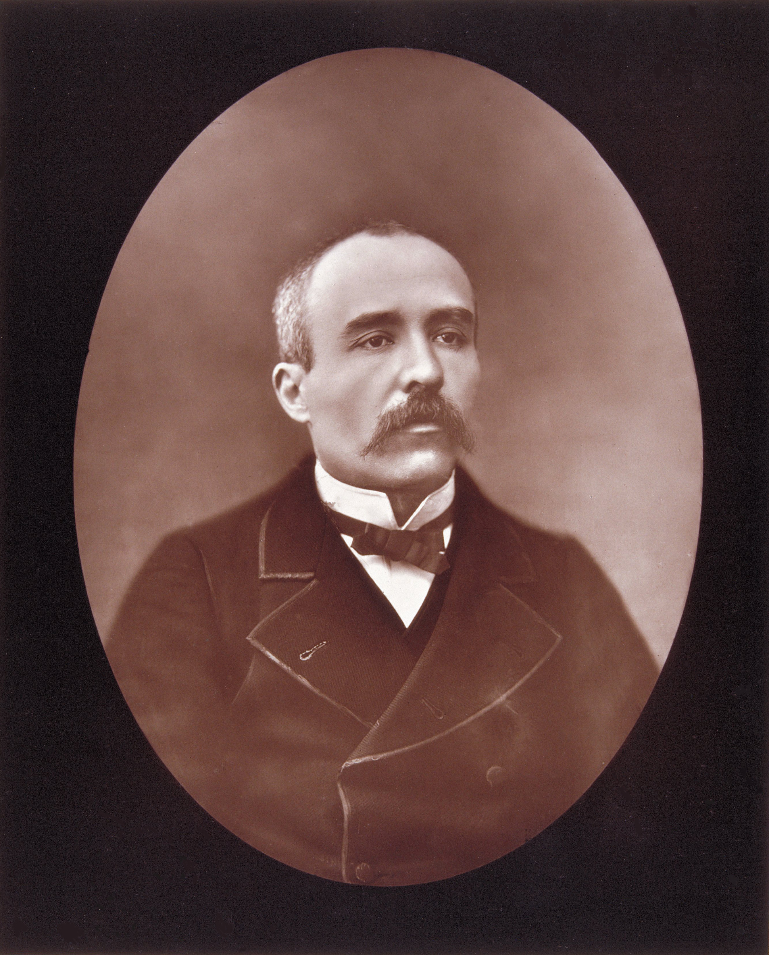 France, 1876-1884 Book: Galerie Contemporaine Volume, number, page: Volume 8 Photographs Woodburytype The Audrey and Sydney Irmas Collection (AC1992.229.123) Photography